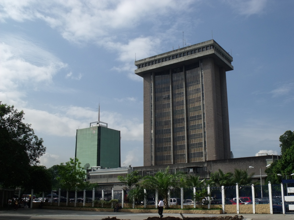 Headquarters of the Ministry of Interior of the Salvadoran government